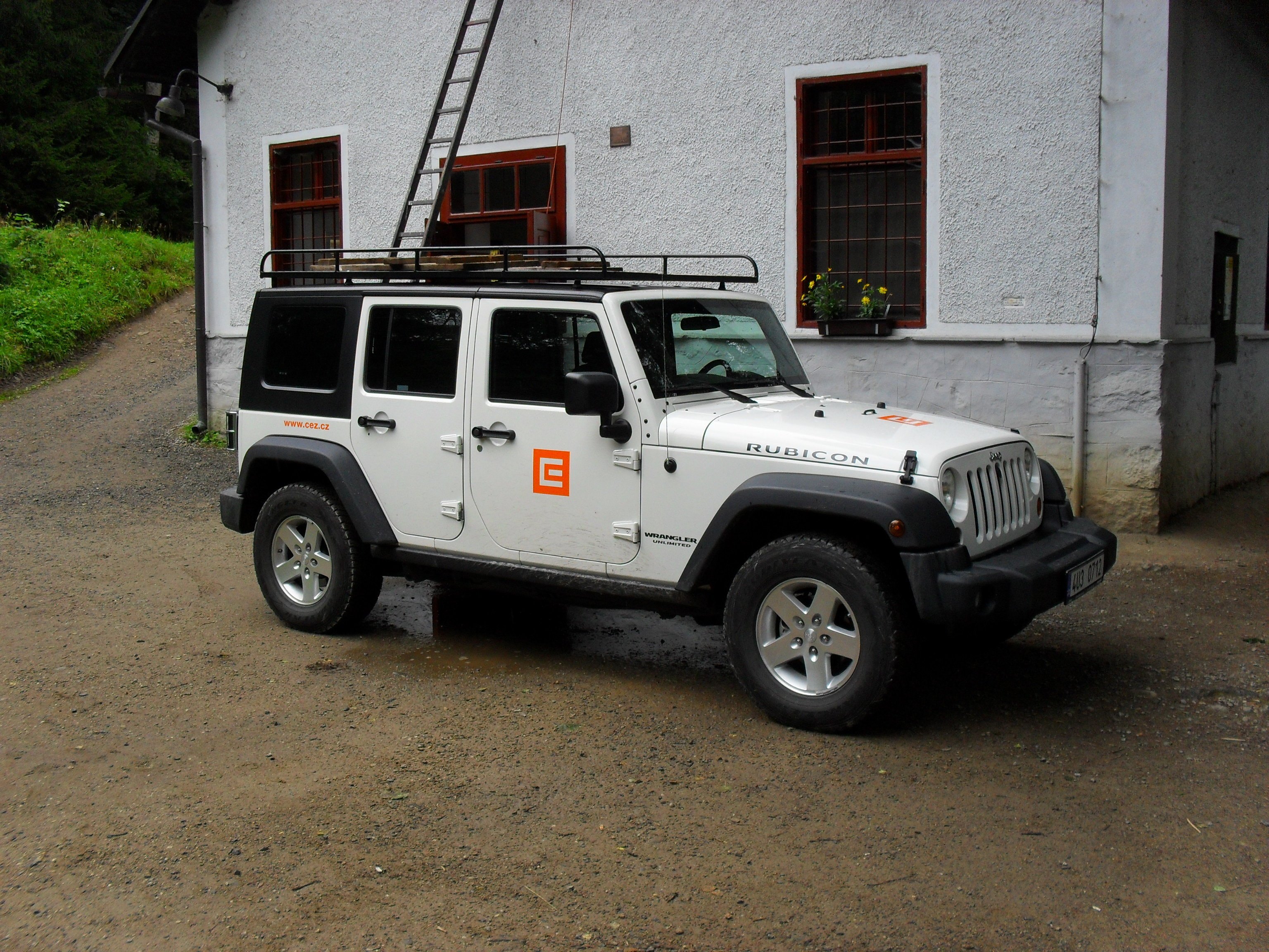 Emergency situation vehicle of ČEZ company